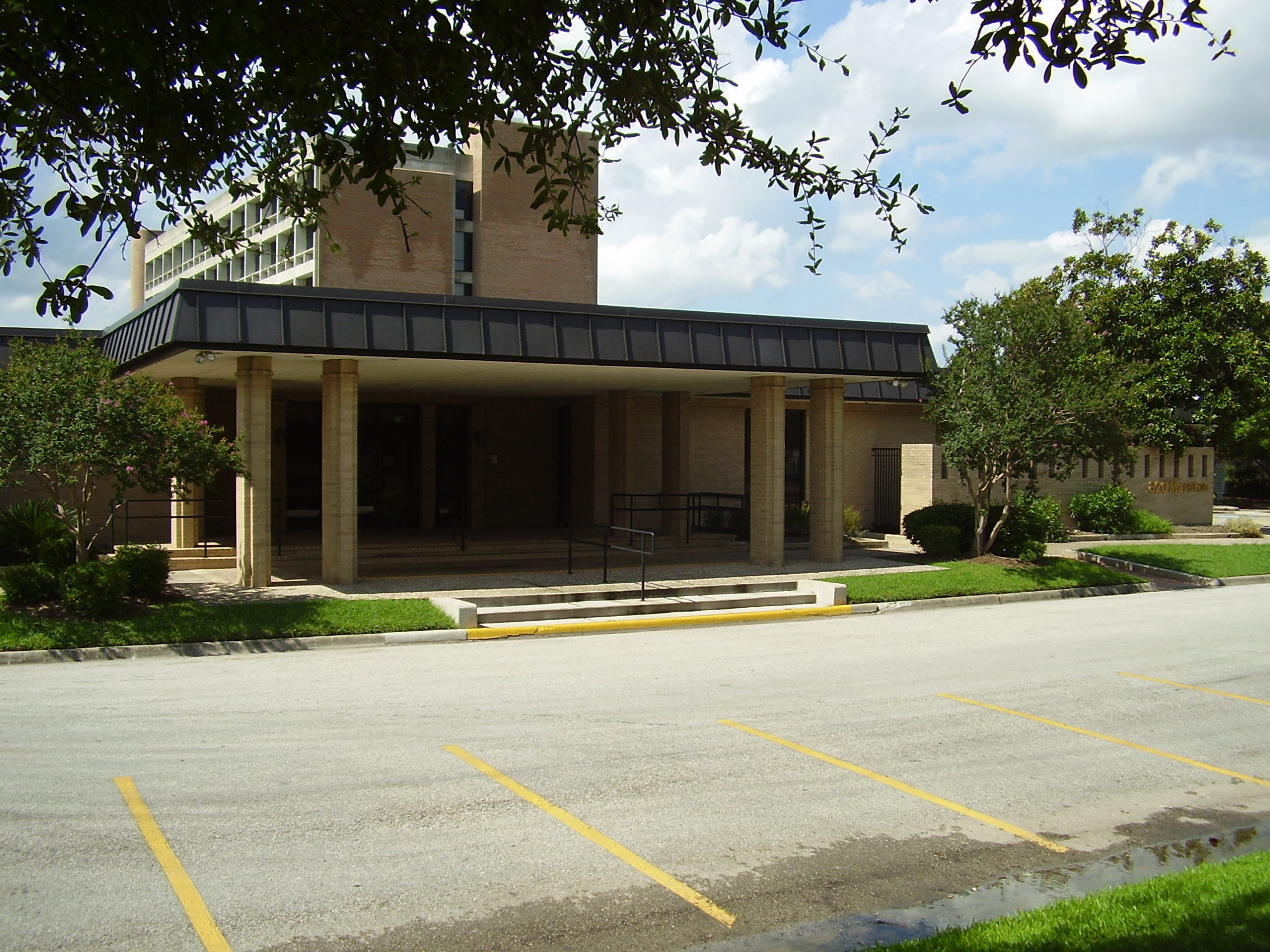 Marston Building - The former headquarters of the Houston Public Library